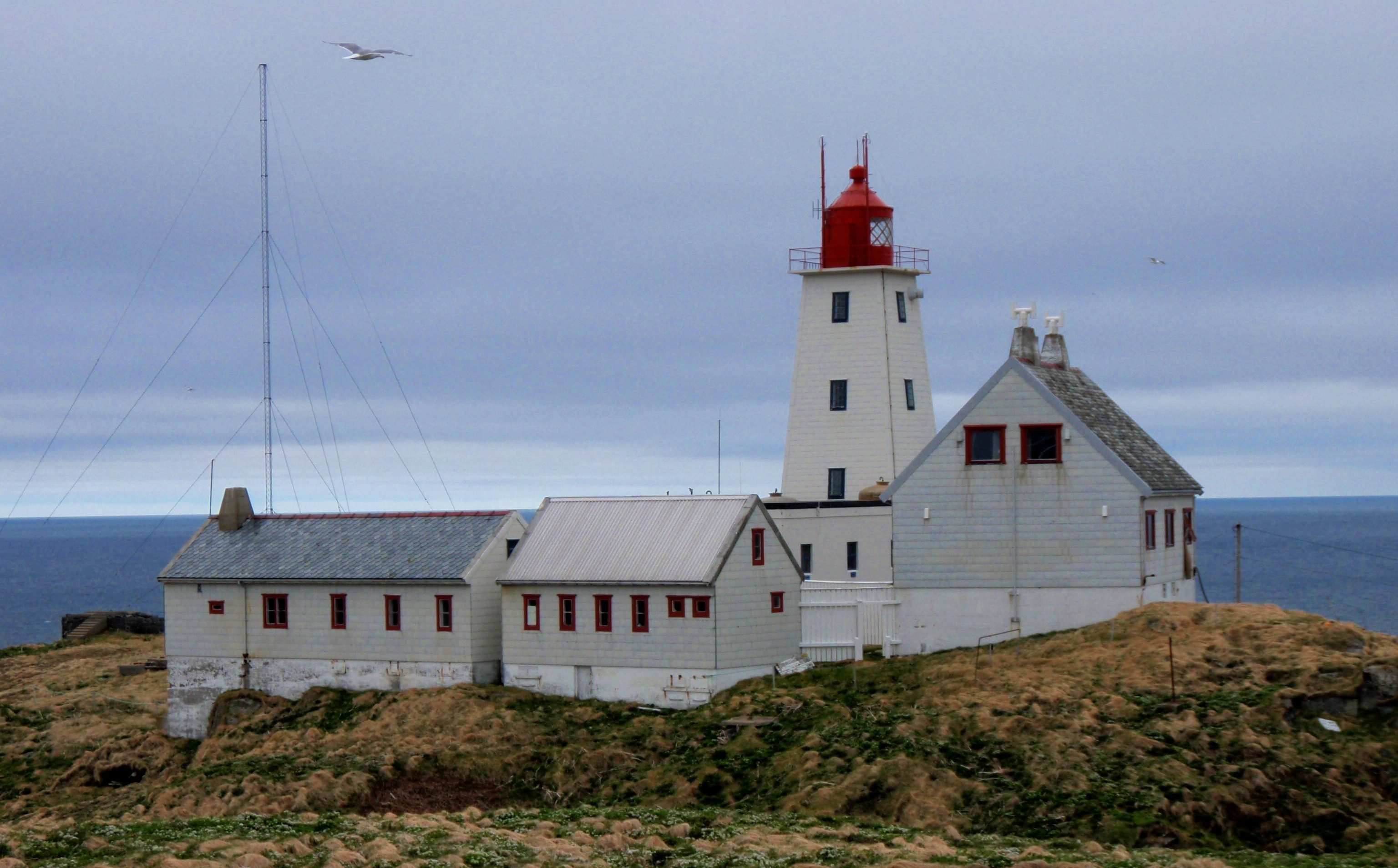 Lighthouse Vardø fyr on the island of Hornøya, off Vardø in Northern Norway